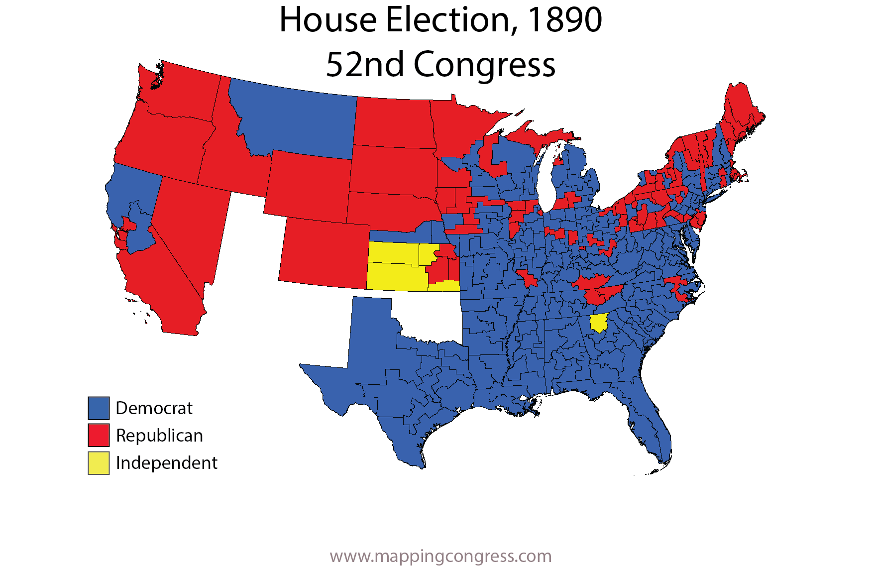 Map of U.S. House elections results from 1890 elections for 52nd Congress